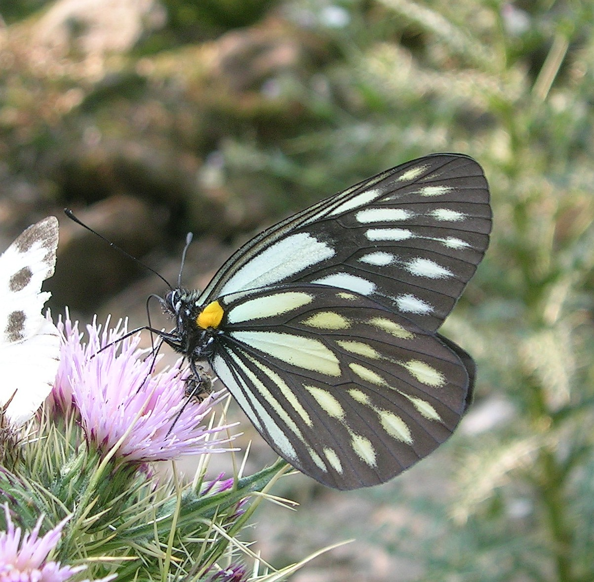 Aporia agathon, Pieridae, Lepidoptera from Munsiyari, the Central Himalayas, India